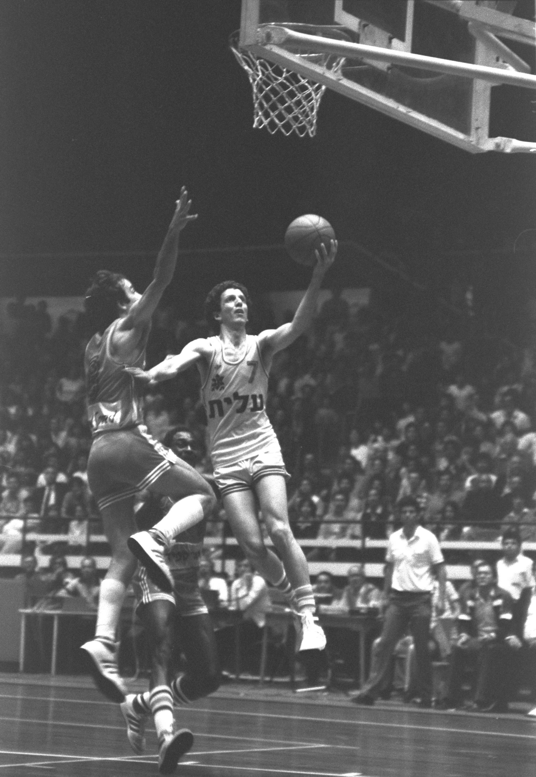 A tense moment during the national basketball final between Hapoel Tel Aviv and Maccabi Tel Aviv, held at the Yad Eliyahu Sports Stadium.